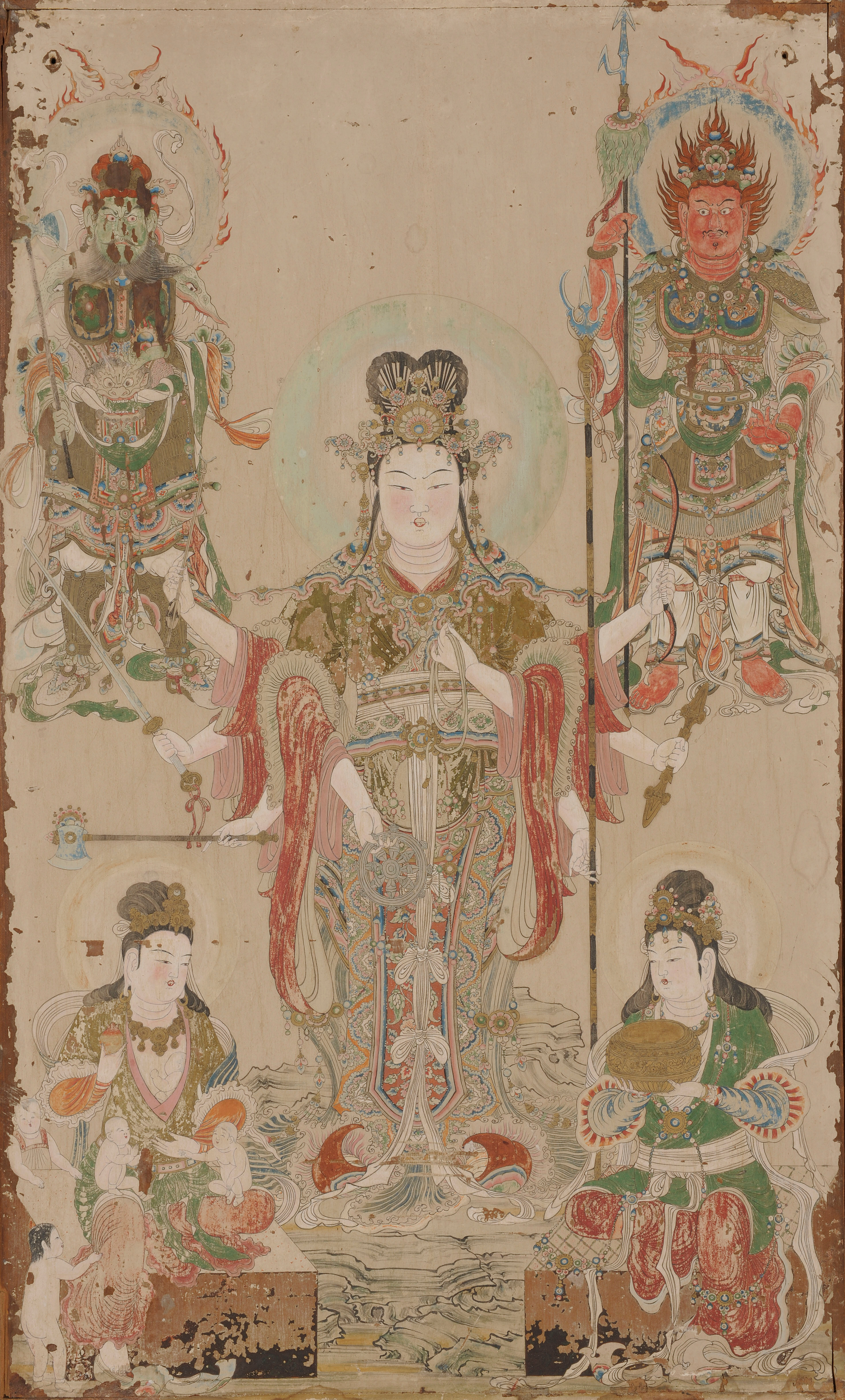 Goddess Saravati Door panel painting of Chest former in JYORURI-JI, Kyoto, JAPAN. about 104x62cm, ACE1212